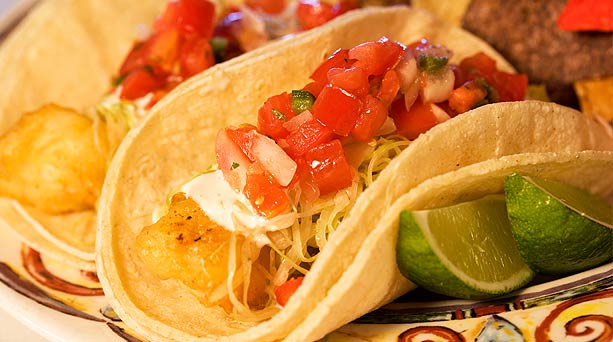 This tacos are served in some stands or in a restaurants of quality. The fish tacos are one of the most remarkable contributions of the emergente food culture from Baja California for the world.